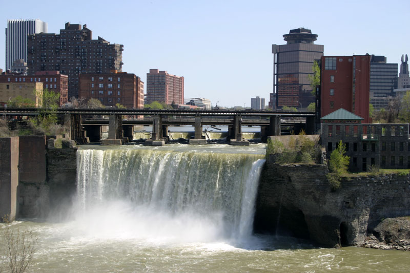 High Falls Rochester NY